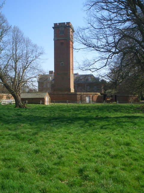 Water tower, Raynham Hall Built remarkably close to the hall but well hidden in the trees. No problems with the water pressure for this Marquis and his household.